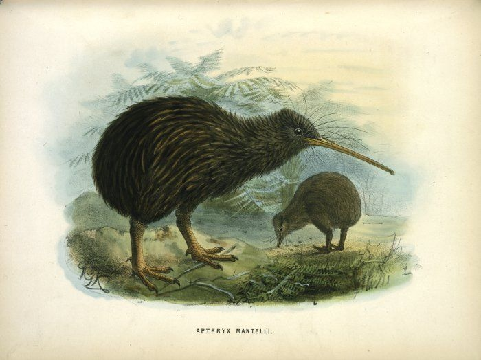 "Apteryx mantelli."